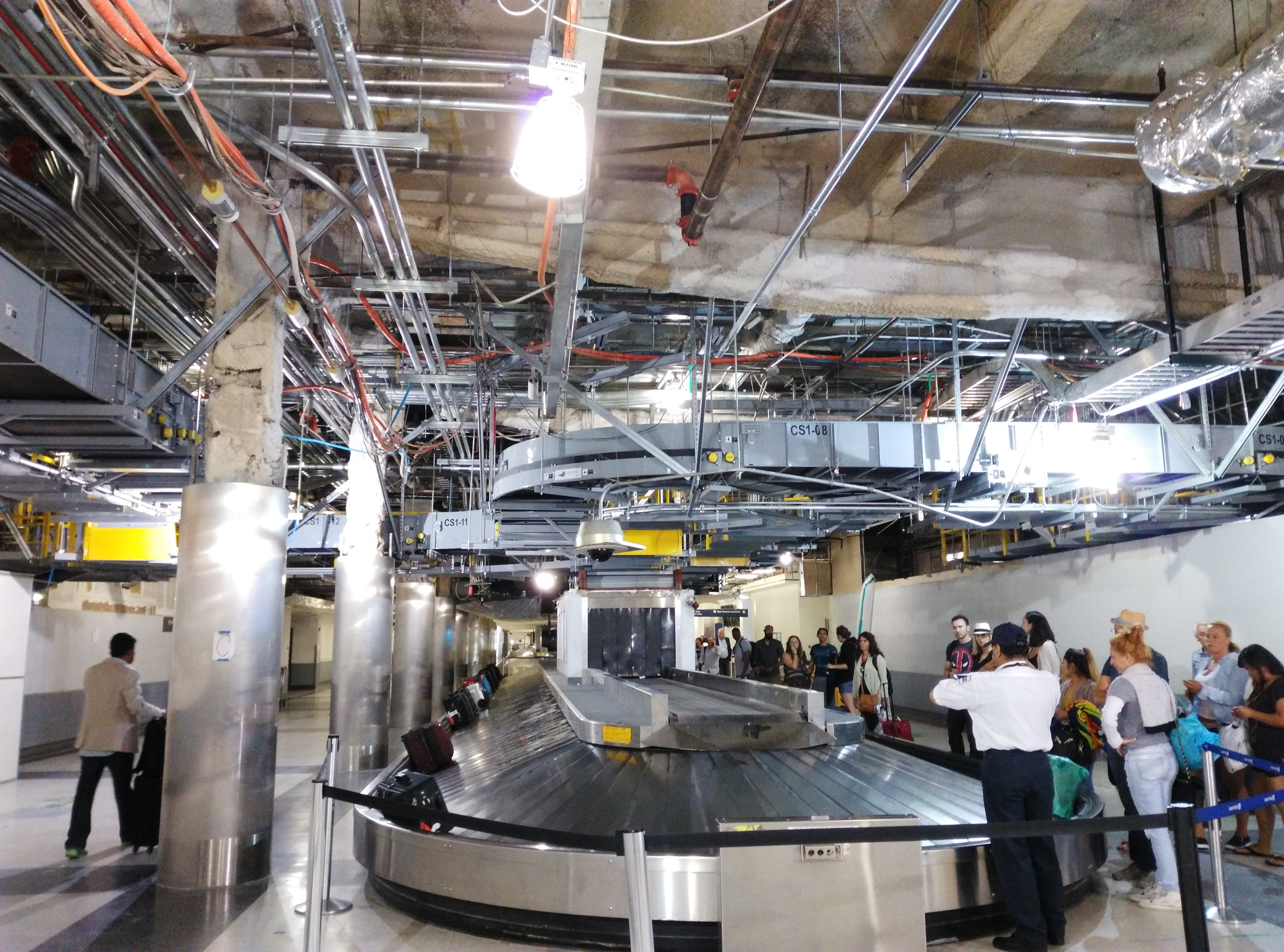 Baggage carousel equipment at Los Angeles International Airport (LAX) exposed during renovation.